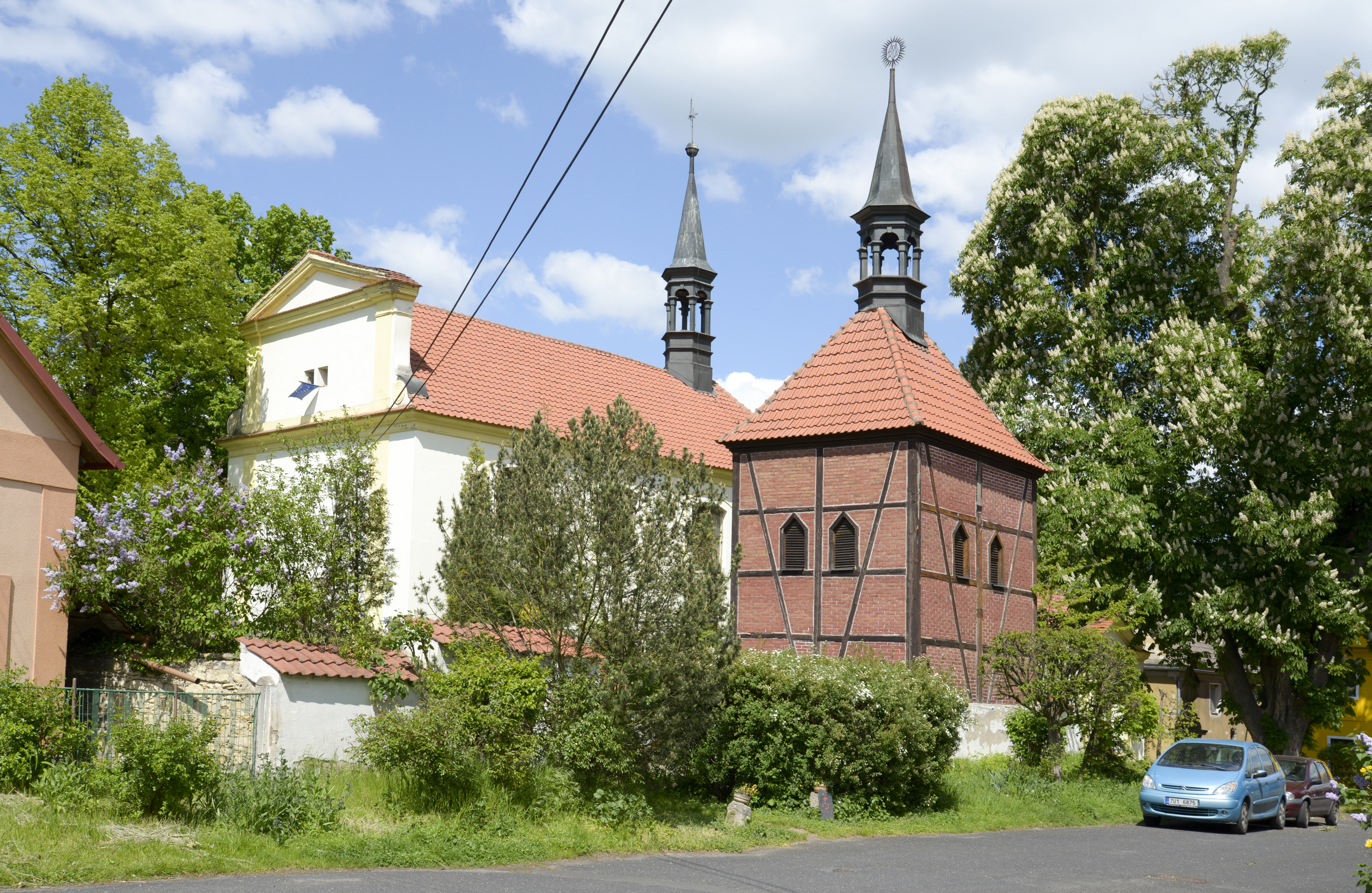 Church of the Assumption (Církvice)